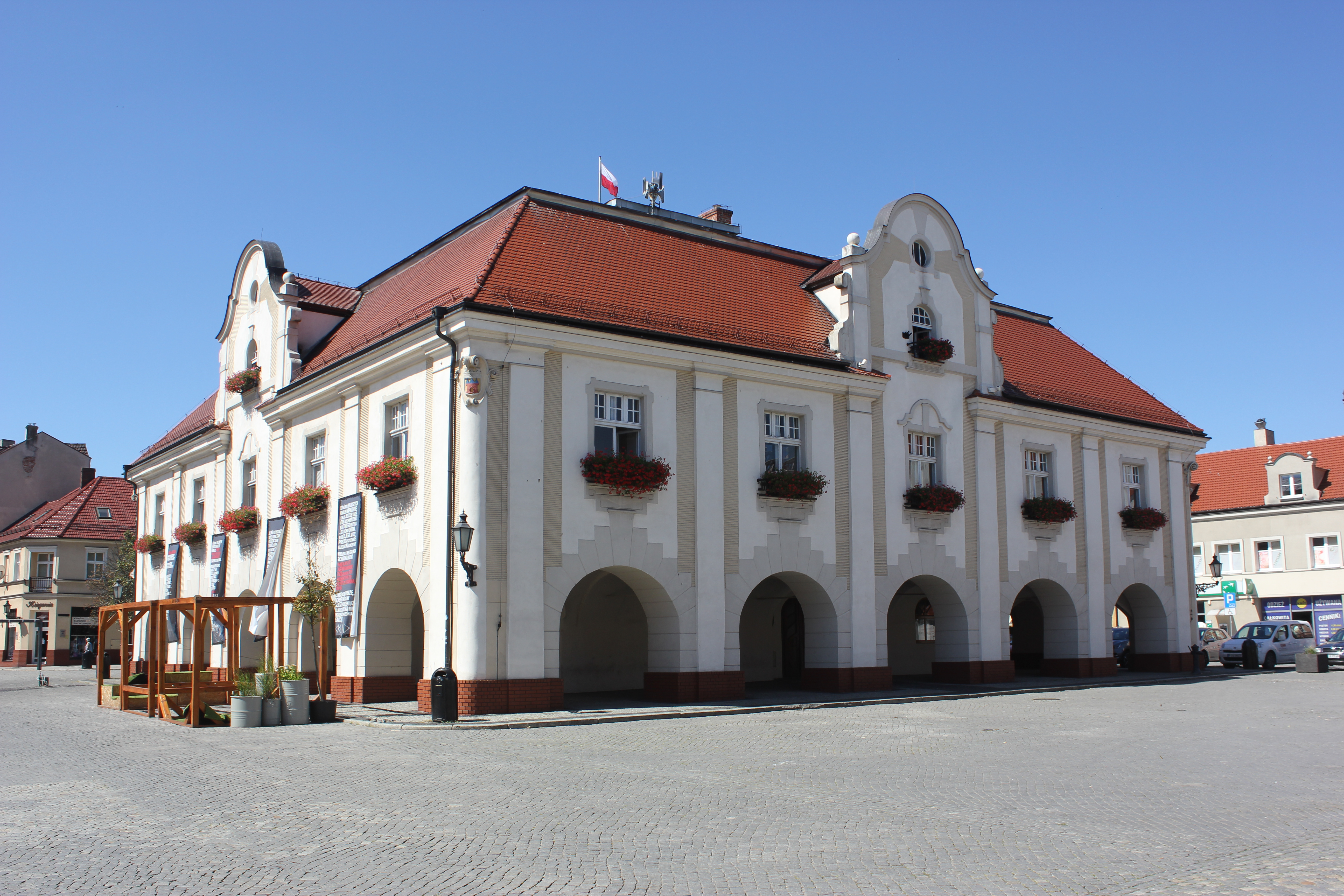 Jarocin - town hall